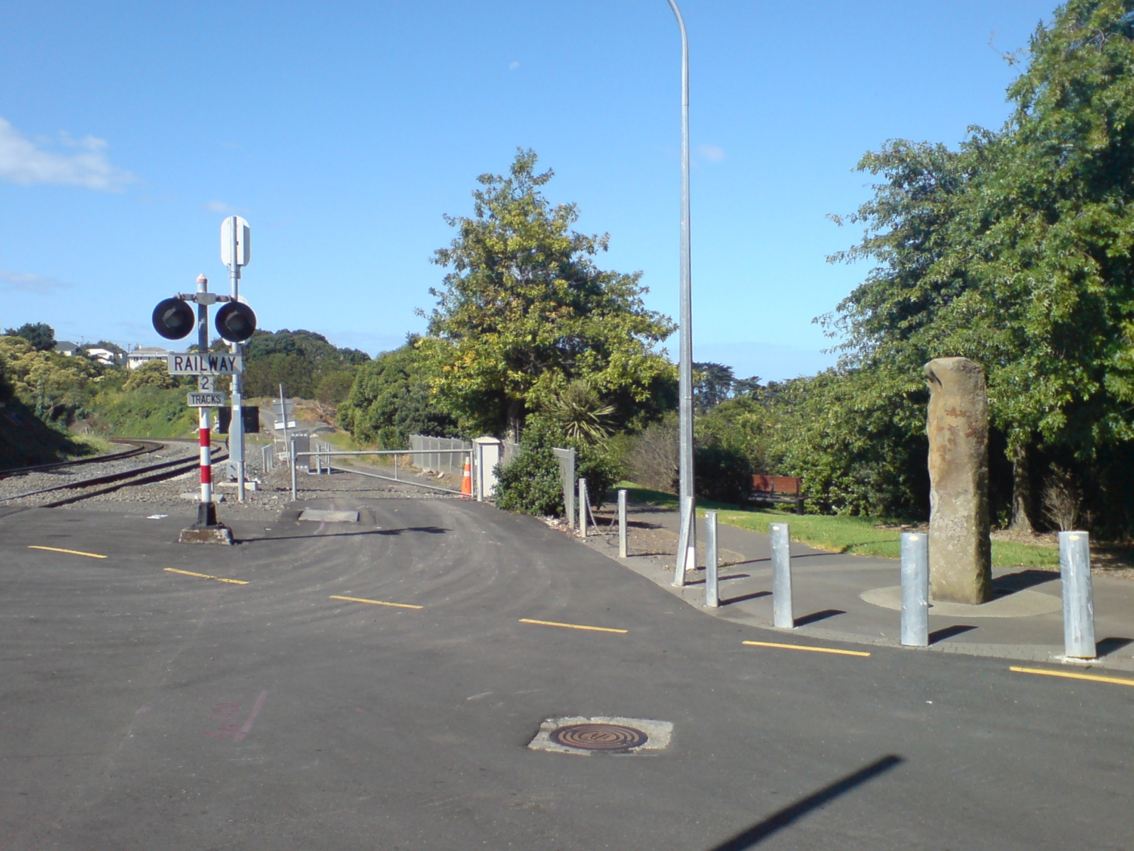 The entrance to Newmarket Park in Auckland, New Zealand. From Sarawia Street looking east.